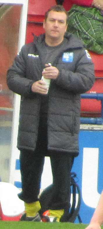 Micky Mellon